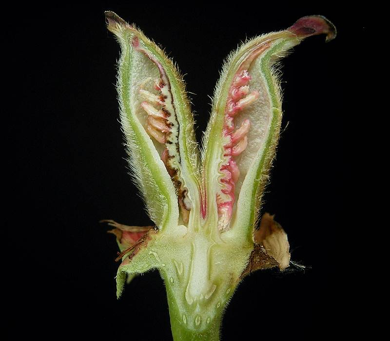 Paeonia officinalis